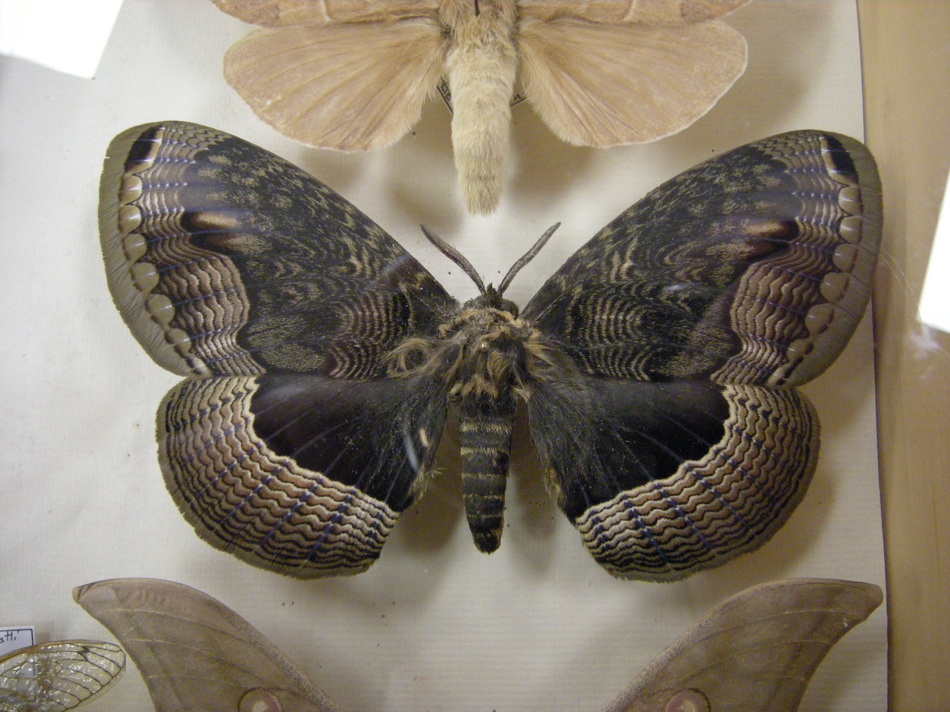 Brahmaea certhia. Part of Don Ehlen's "Insect Safari" collection. Brahmaea species If you know more about the individual species here, please feel free to flesh out this description.